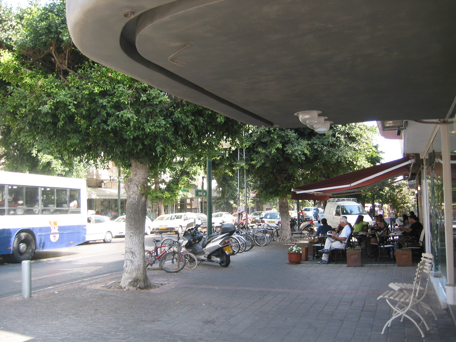 Cafe in Dizengoff Street, Tel Aviv